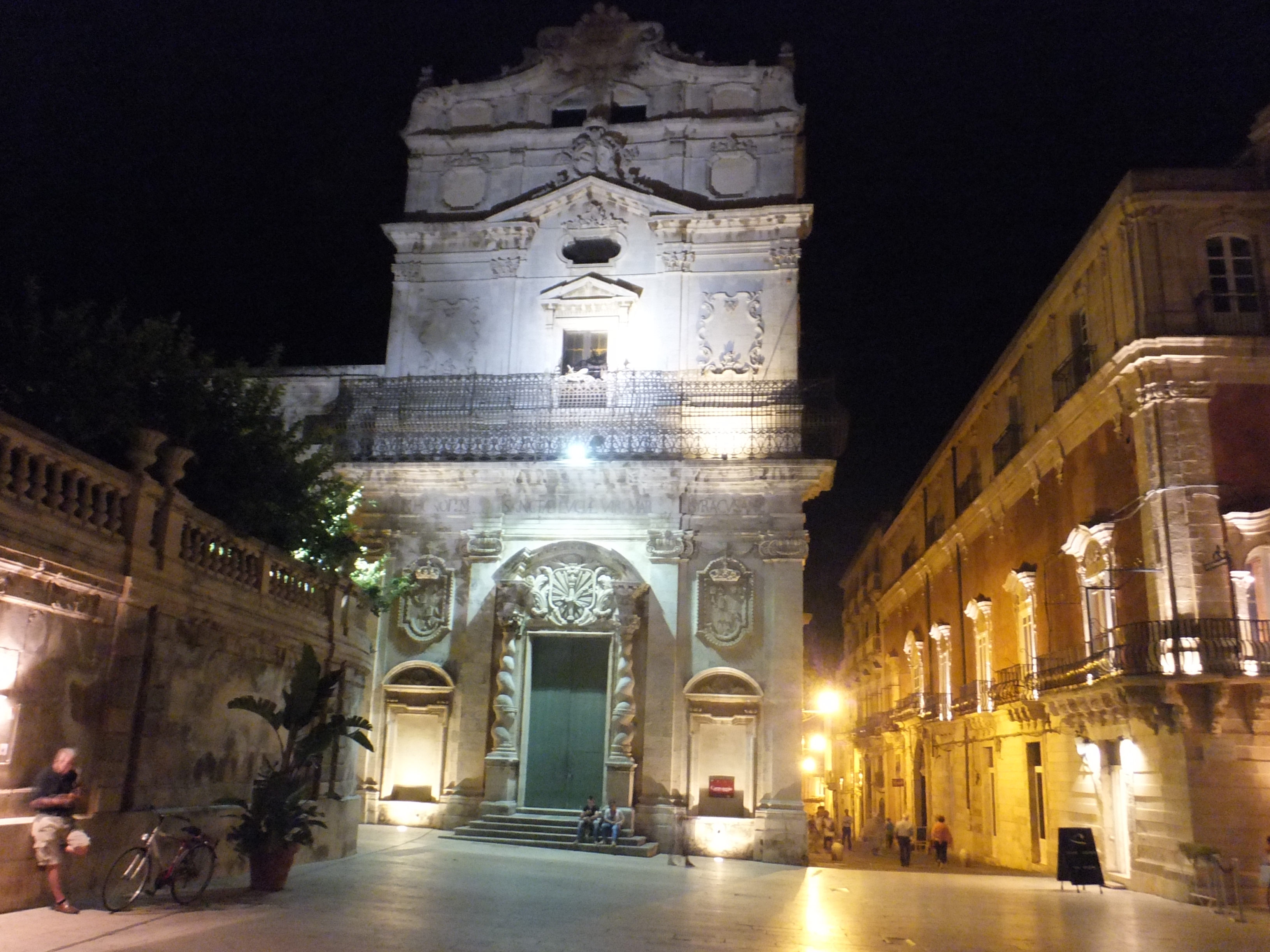 Santa Lucia Alla Badia Church. Caravaggio's painting "The Burial Of Saint Lucy" is located here